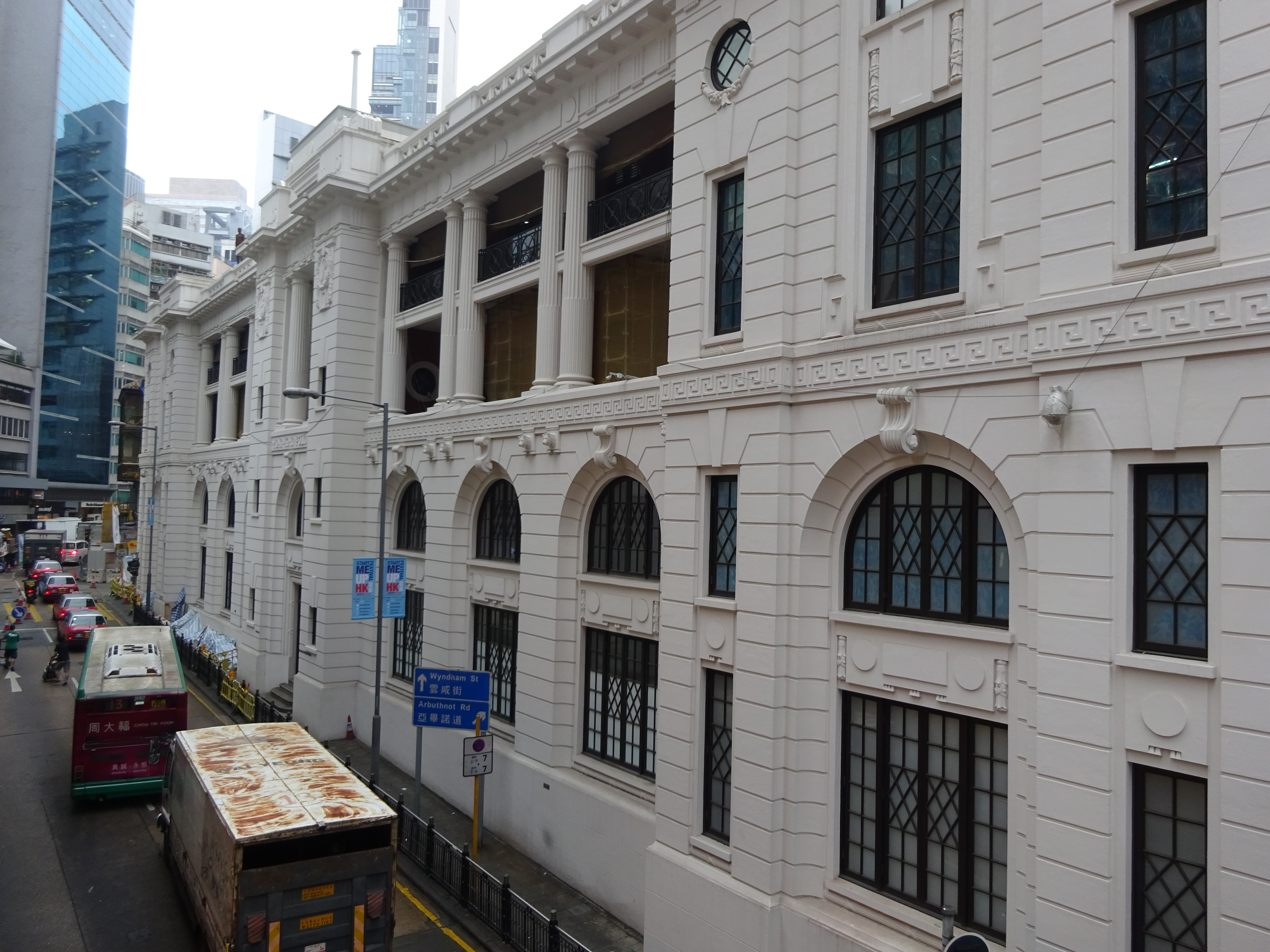 Central-Mid-Levels escalators in Jan-2015